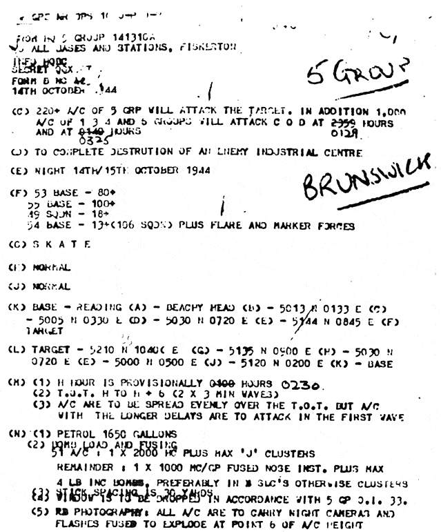 First page of the Bombing of Braunschweig in World War II mission orders for No. 5 Group RAF. A transcription of the typed text (transcribed using lower case) is as follows: (C) 220+ aircraft of 5 GRP will attack the target. In addition 1,000 A/C of 1 3, 4 and 6 Groups C O D1 at 2359 hours and 0140 hours (D) To complete destrution [sic] of an enemy industrial centre (E) Night 14th/15th October 1944 (F) 53 Base – 80+ 55 Base – 100+ 49 SQDN – 18+ 54 Base – 13+ (106 SQDN) plus flare and marker forces (G) S K A T E1 (H) Normal (J) Normal (K) Base - Reading (A) - Beachy Head (B) - 5013 N 0133 E (C) - 5005 N 0330 E (D) - 5030 N 0720 E (E) - 5144 N 0845 E (F) Target (L) Target - 5210 N 1040 E (G) - 5135 N 0900 E (H) - 5030 N 0720 E (E) - 5000 N 0500 E (J) - 5120 N 0200 E (K) - Base (M) (1) H Hour is provisionally 0100 hours (2) T.O.T. H to H + 6 (2 × 3 min. waves) (3) A/C are to be spread evenly over the T.O.T. But A/C with the longer delays are to attack in the first wave (N) (1) Petrol 1650 gallons (2) Bomb load and Fusing 51 A/C : 1 x 2000 HC plus max 'J' clusters2 Remainder : 1 x 1000 MC/GP2 fused nose inst. plus max 4 lb inc bombs, preferably in SLC's otherwise clusters (3) Stick spacing is 30 yards (4) Window is to be dropped in accordance with 5 GP 0.1. 33. (5) RD Photography: All A/C are to carry night cameras and flashes fused to explode at point 6 of A/C height3